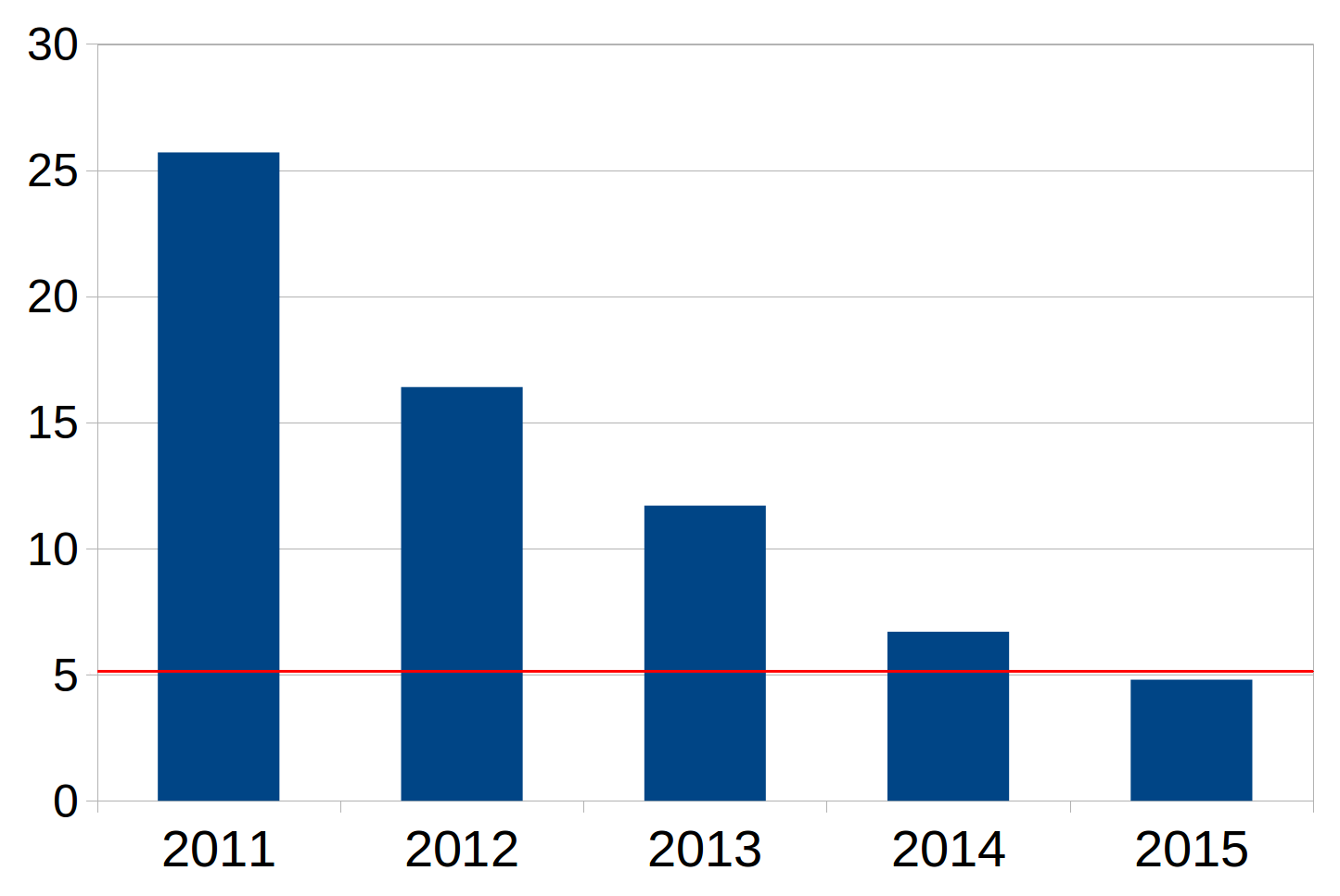 Progress in machine classification of images: the error rate (%) of the ImageNet competition winner by year. Red line - the error rate of a trained human annotator (5.1%). Information about the ImageNet competition is here. It's one of the most reputable competitions in the field, sponsored by the Stanford University, Princeton University, Google and A9. "While our algorithm produces a superior result on this particular dataset, this does not indicate that machine vision outperforms human vision on object recognition in general." Source of the data: Dean Takahashi. Google expert explains why deep-learning neural nets are hot in everything from games to recognizing cats // VentureBeat, March 18, 2015 Additional information about the data: John Markoff. Machine Vision Takes Big Step // The New York Times (the New York edition). page B6. 08/25/2014 Andrej Karpathy, Fei-Fei Li. Automated Image Captioning with ConvNets and Recurrent Nets. 2014 Jordan Novet. Microsoft researchers say their newest deep learning system beats humans — and Google // VentureBeat, February 9, 2015 Andrej Karpathy. What I learned from competing against a ConvNet on ImageNet // github.io. Sep 2, 2014 O. Russakovsky, J. Deng, H. Su, J. Krause, S. Satheesh, S. Ma, Z. Huang, A. Karpathy, A. Khosla, M. Bernstein, et al. Imagenet large scale visual recognition challenge. ArXiv:1409.0575, 2014. Kaiming He. Xiangyu Zhang. Shaoqing Ren. Jian Sun. Delving Deep into Rectifiers: Surpassing Human-Level Performance on ImageNet Classification Data: 2011 - 25,7% 2012 - 16,4% 2013 - 11,7% 2014 - 6,7% 2015 - 4,8%